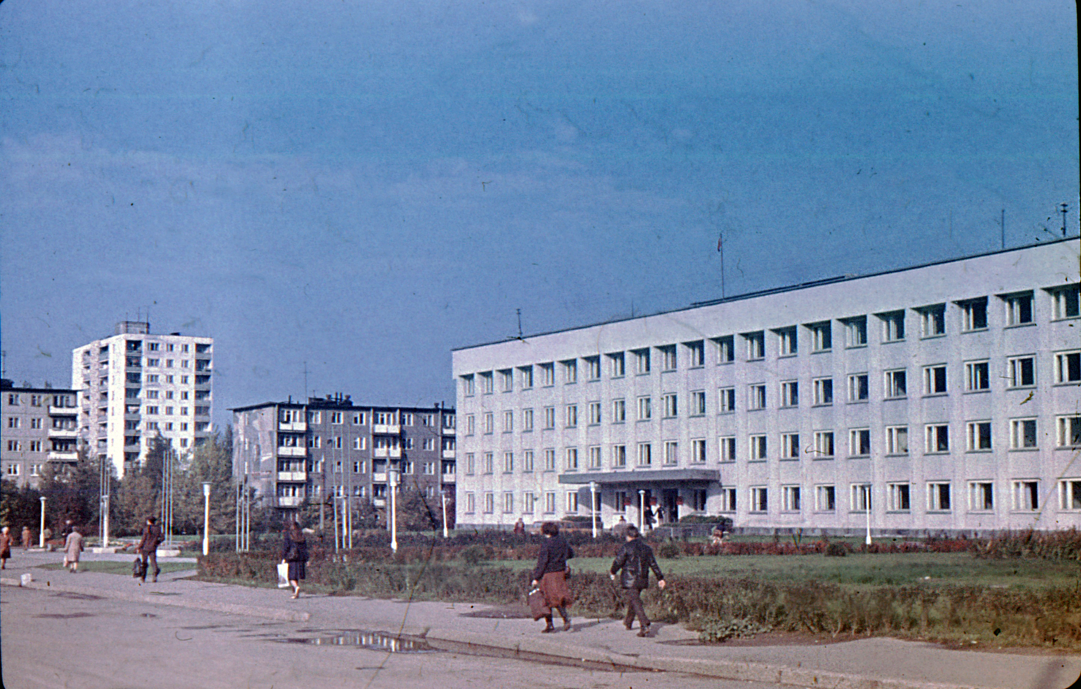 Gorky City. Sovetskaya Square